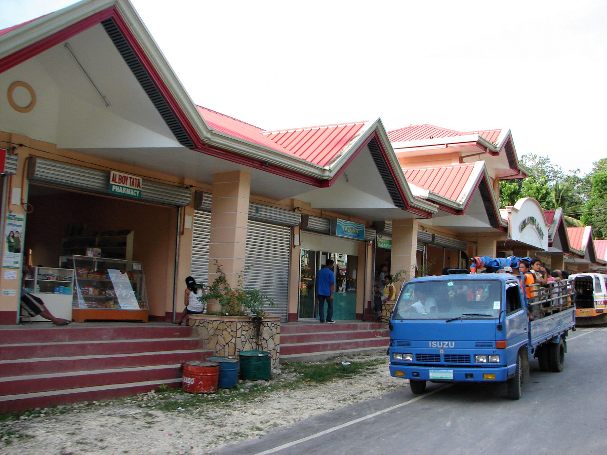 Public market of Corella, Bohol, the Philippines